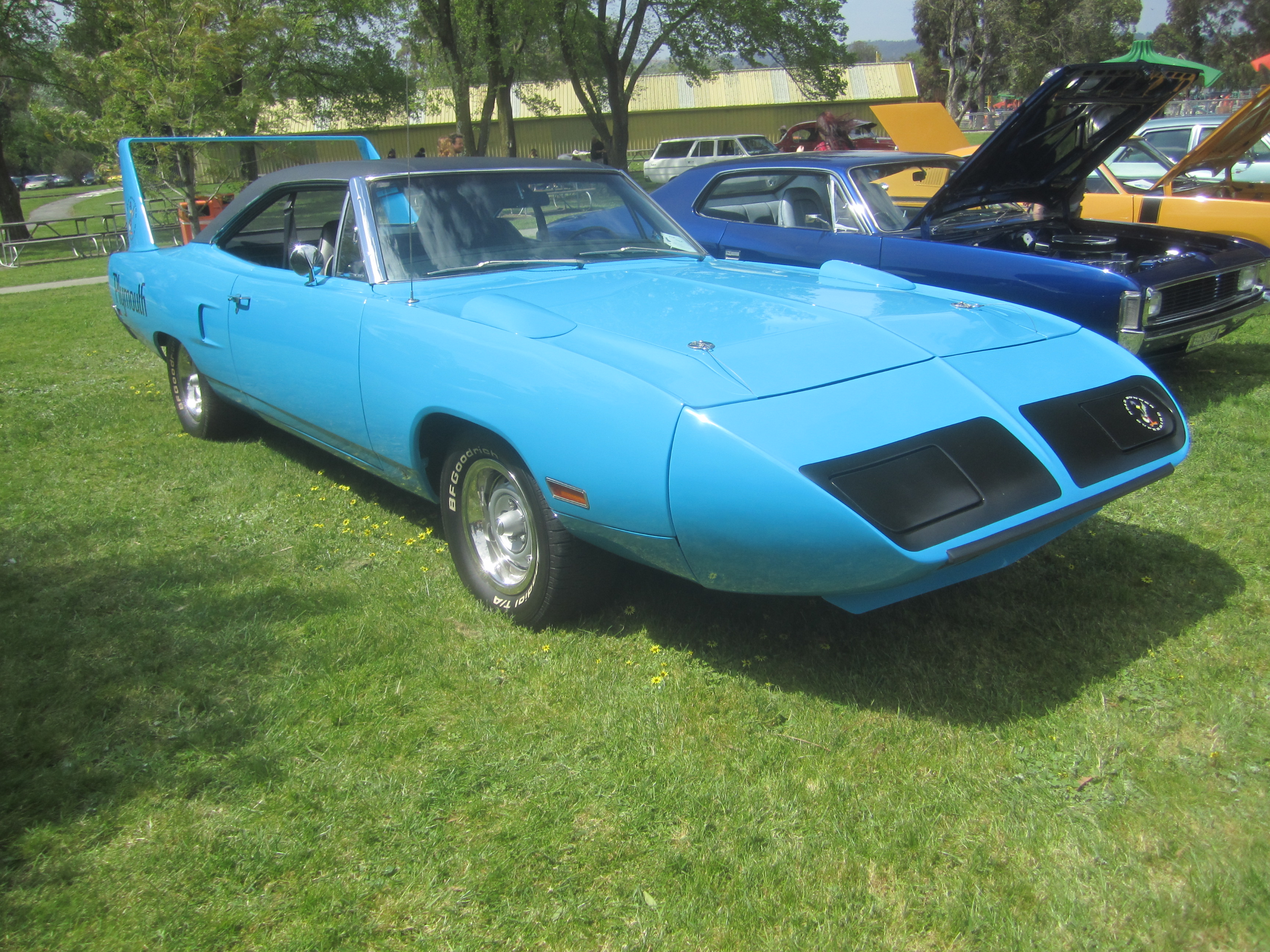 Corporation (Petty) Blue. The Dodge Daytona had a lot of sucess in 1969 in NASCAR against the Ford Torinos and Mercury Cyclones, so Plymouth built a similar car in 1970; The Superbird, it was based on the Road Runner but with 19inch long shark nose cap and 3ft high goal post rear wing (to give stability at 150mph) 1920 were made (93 Hemis). Today one of the most valuable muscle cars.